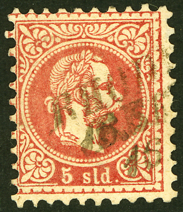 Rare brown cancellation RHODUS (type Müller A86) on Austrian Levant stamp 5 soldi, issue 1867, Michel N°3I